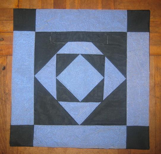 Podruchnik